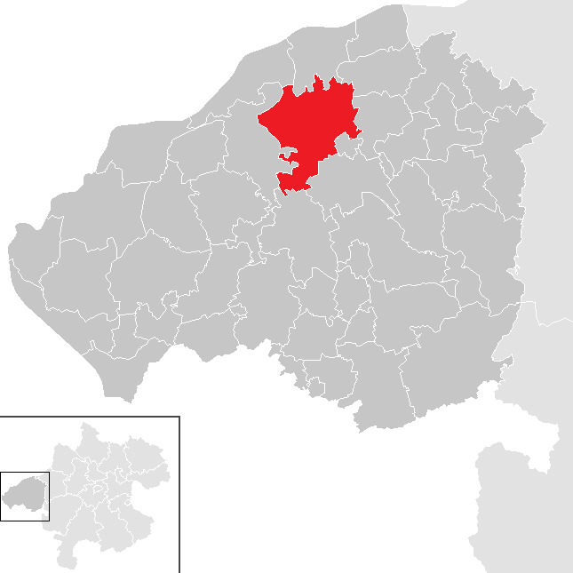 district Braunau am Inn